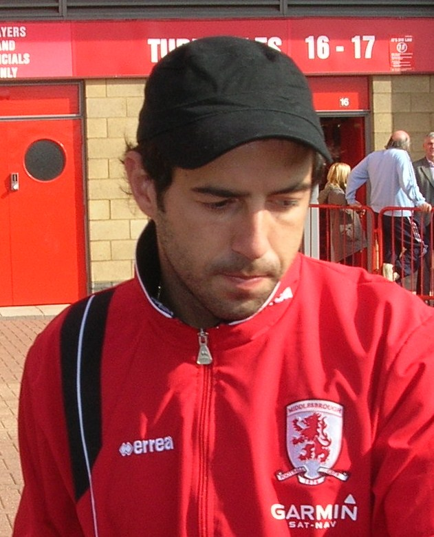 Julio Arca, Argentinian footballer